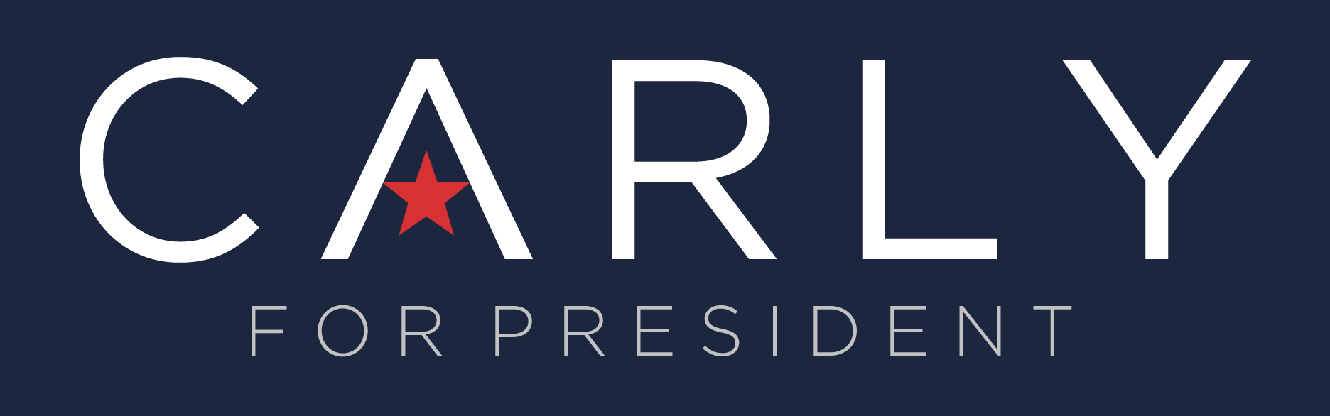 Logo for Carly Fiorina's 2016 Presidential campaign